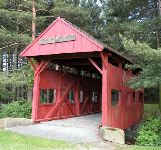 Picture of Devil's Den, McClurg Covered Bridge located in Hanover Township park in Hanover Township, Washington County, Pennsylvania, on May 23, 2010. The sign on the bridge says, "McClurg Bridge - 1880". Built circa 1880, the bridge is listed on the National Register of Historic Places.